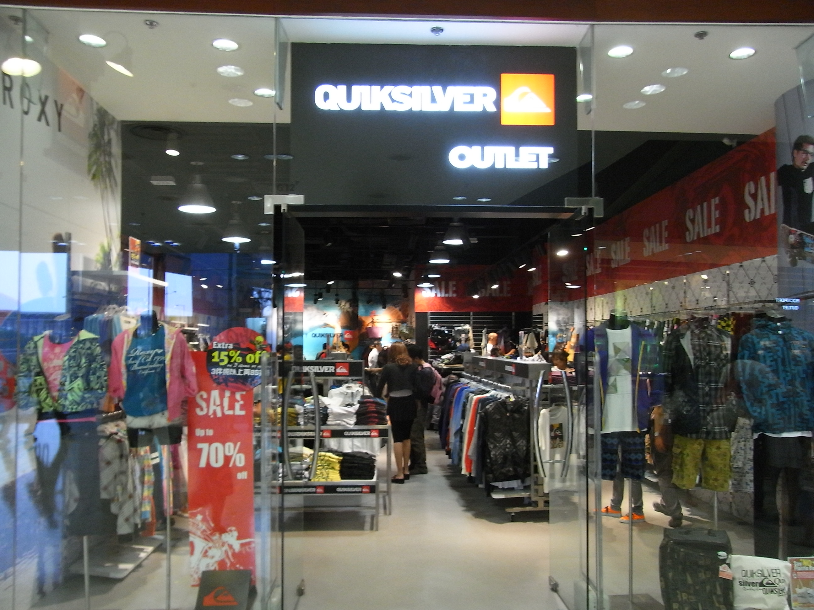 新界大嶼山東涌達東路20號東薈城, CityGate, Tung Chung, Islands District, Hong Kong